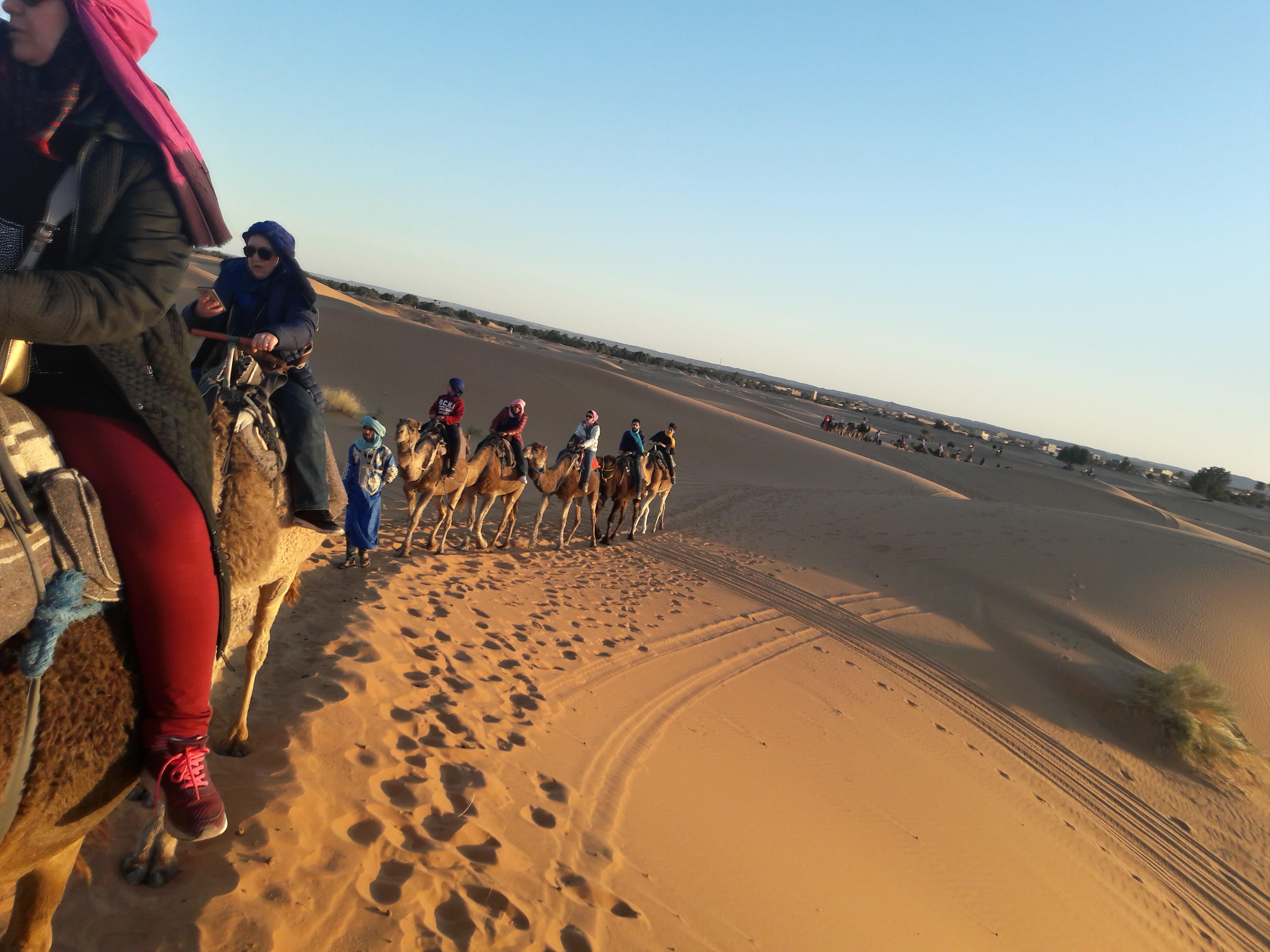 I took this picture while we were riding camels in the desert in order to see the sunset upon sandhills. The weather was perfect, and then when I looked behind me, I sow that no one or nothing is behind us, except THE DESERT. That's inspired me and thus, I decided to take this picture to immortalize this unique moment.